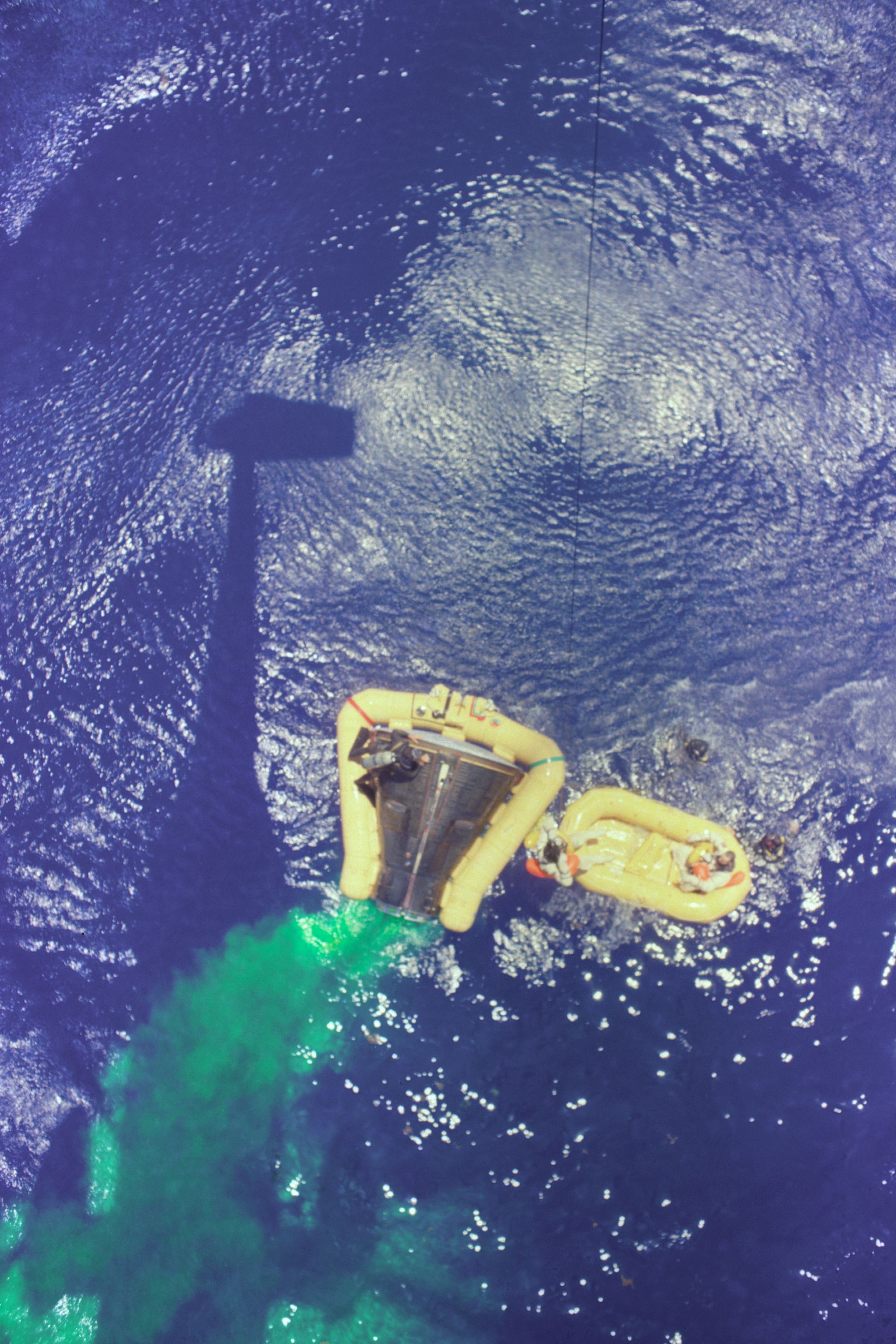 Overhead view of the Gemini 4 spacecraft showing the yellow flotation collar used to stabilize the spacecraft in choppy seas. The green marker dye is highly visible from the air and is used as a locating aid. A crewmember is being hoisted aboard a U.S. Navy helicopter during recovery operations following the successful four-day, 62 revolution mission highlighted by Ed White's space walk.